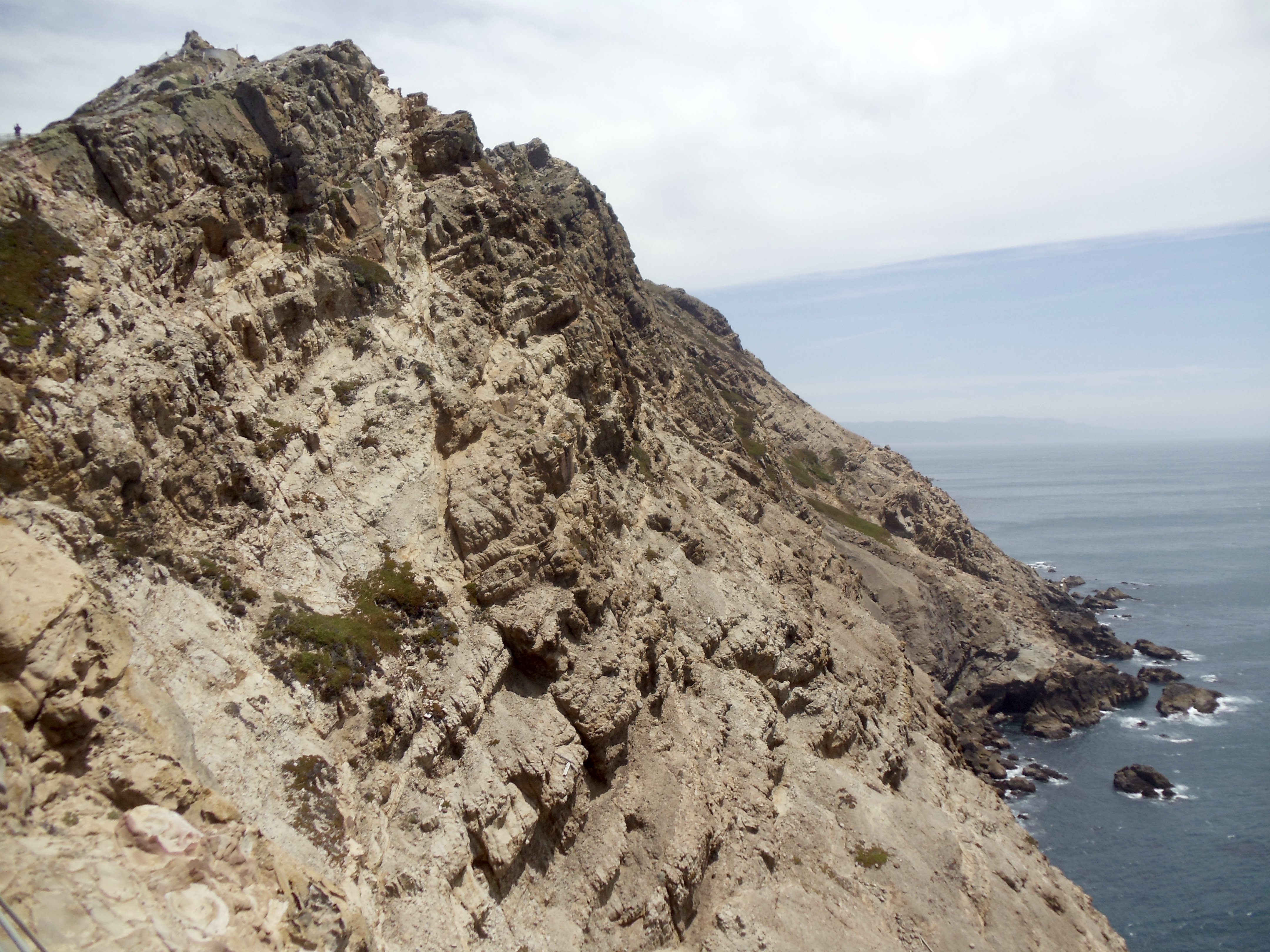 The upward-sloping Salinian Block formation that spans the entirety of California's central coast can prominently be seen here from the Point Reyes Lighthouse.